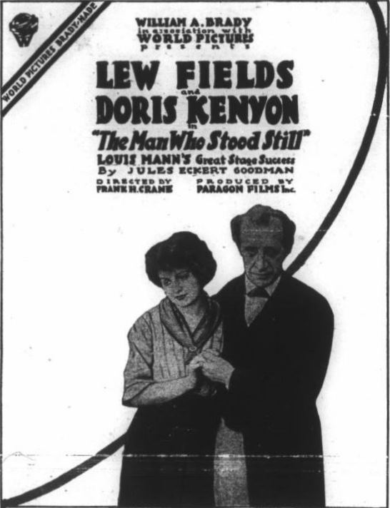 Advertisement for the American drama film The Man Who Stood Still (1916) with Doris Kenyon and Lew Fields, on page 27 of the October 27, 1916 Variety.